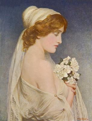 iphigenia